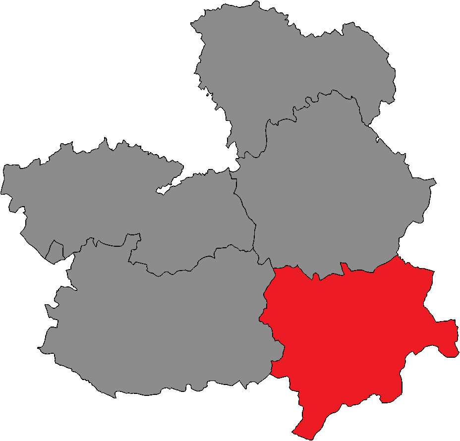 Cortes of Castilla-La Mancha district of Albacete.